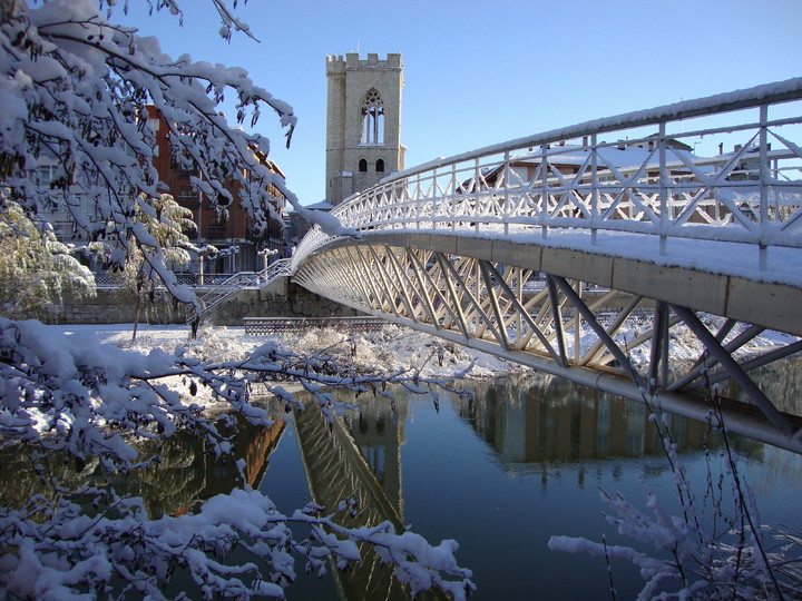 La Iglesia de San Miguel tras la tormenta de nieve de 2010